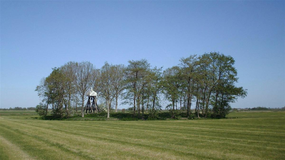 wooden bell tower in Indijk, Friesland, Netherlands